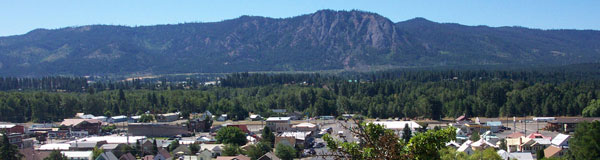 Cle Elum from the northern hill